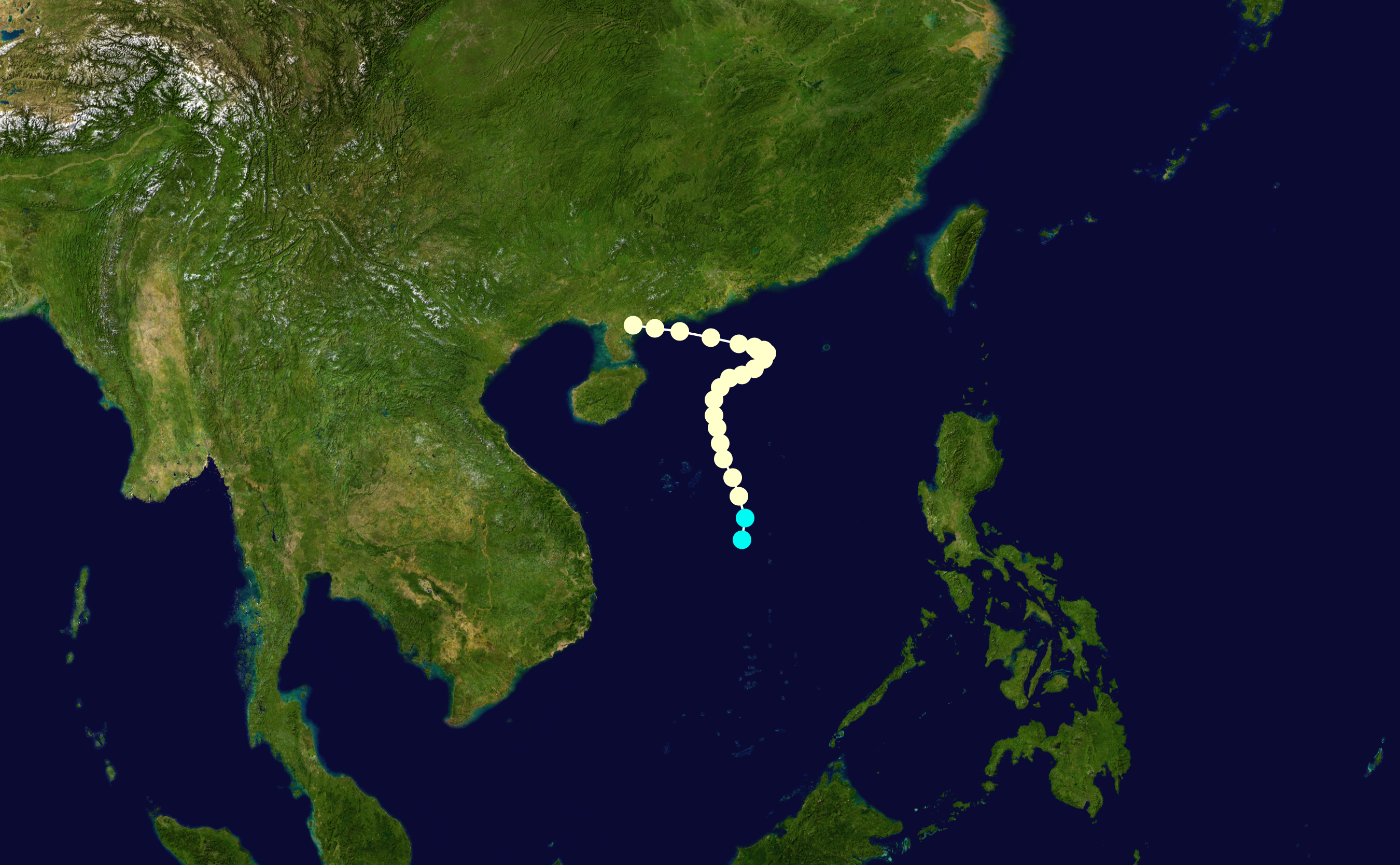 Track map of Typhoon Unnamed of the 1939 Pacific typhoon season. The points show the location of the storm at 6-hour intervals. The colour represents the storm's maximum sustained wind speeds as classified in the Saffir–Simpson scale (see below), and the shape of the data points represent the nature of the storm, according to the legend below. Saffir–Simpson scale Tropical depression≤38 mph≤62 km/h Category 3111–129 mph178–208 km/h Tropical storm39–73 mph63–118 km/h Category 4130–156 mph209–251 km/h Category 174–95 mph119–153 km/h Category 5≥157 mph≥252 km/h Category 296–110 mph154–177 km/h Unknown Storm typeTropical cycloneSubtropical cycloneExtratropical cyclone / Remnant low / Tropical disturbance